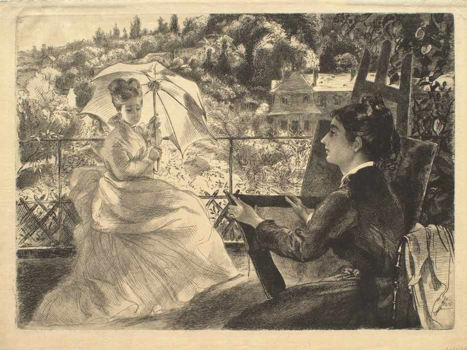 Terrace of the Villa Brancas (in Sèvres, near Paris). Marie Bracquemond (Félix Bracquemond's wife) is seated on the right, her sister on the left.